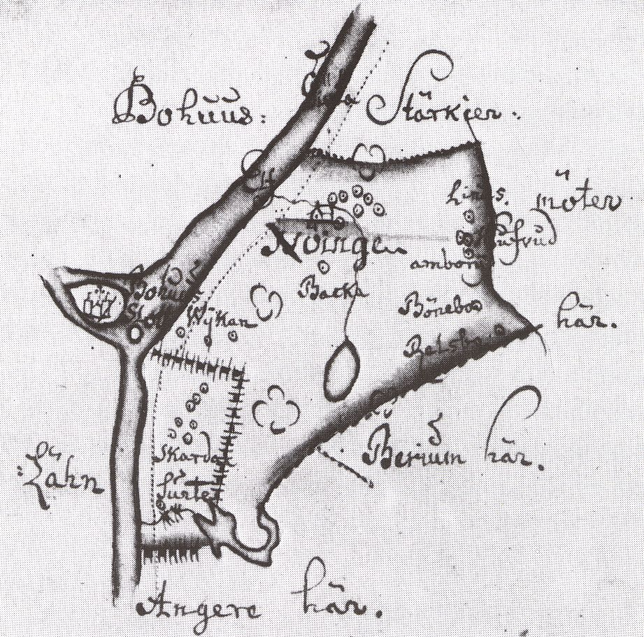 Map of Nödinge municipality north of Gothenburg, Sweden, drawn before 1715.